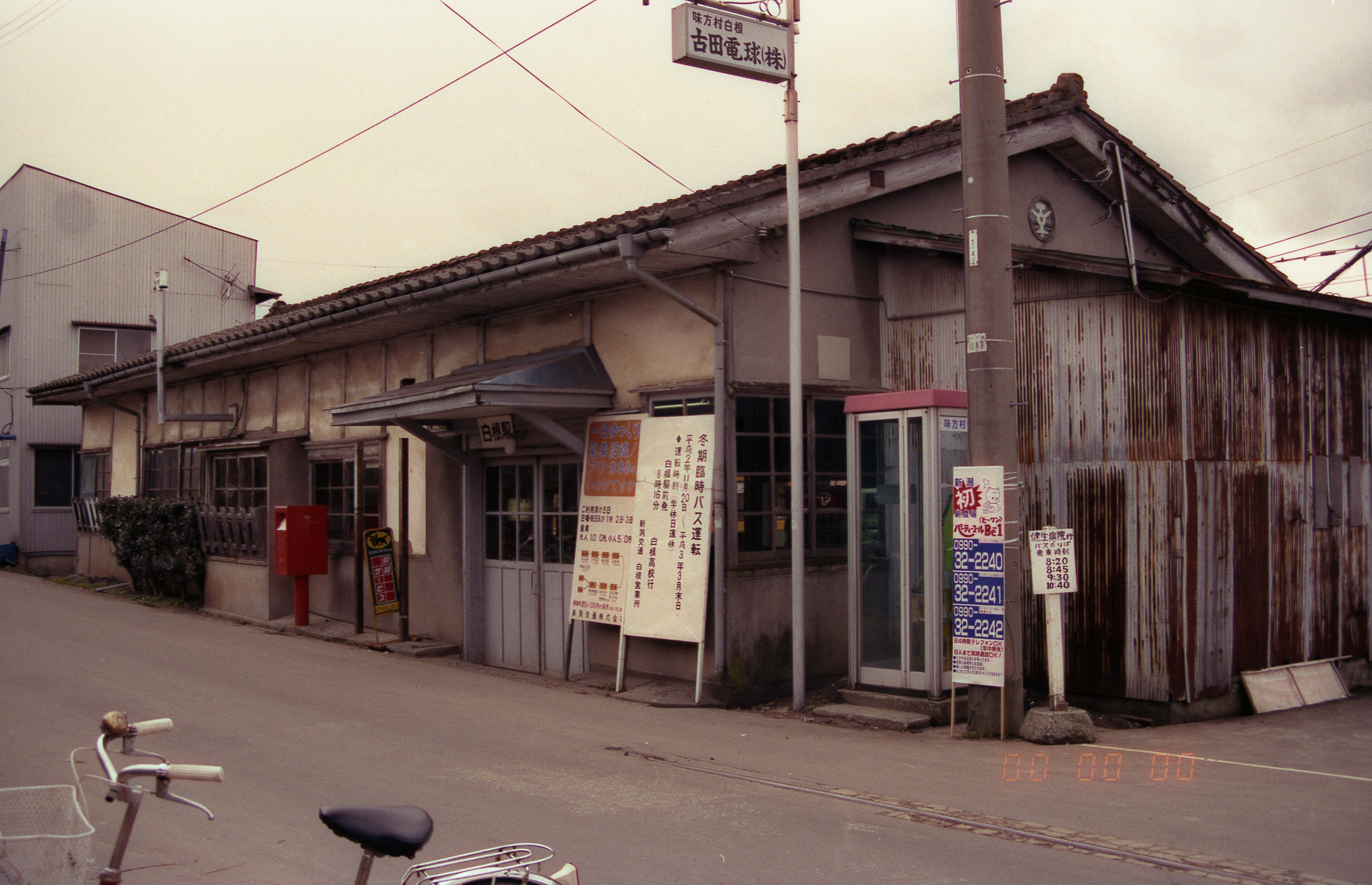 The building of Shirone Station, Niigata Kotsu Railway (before it was abolished)